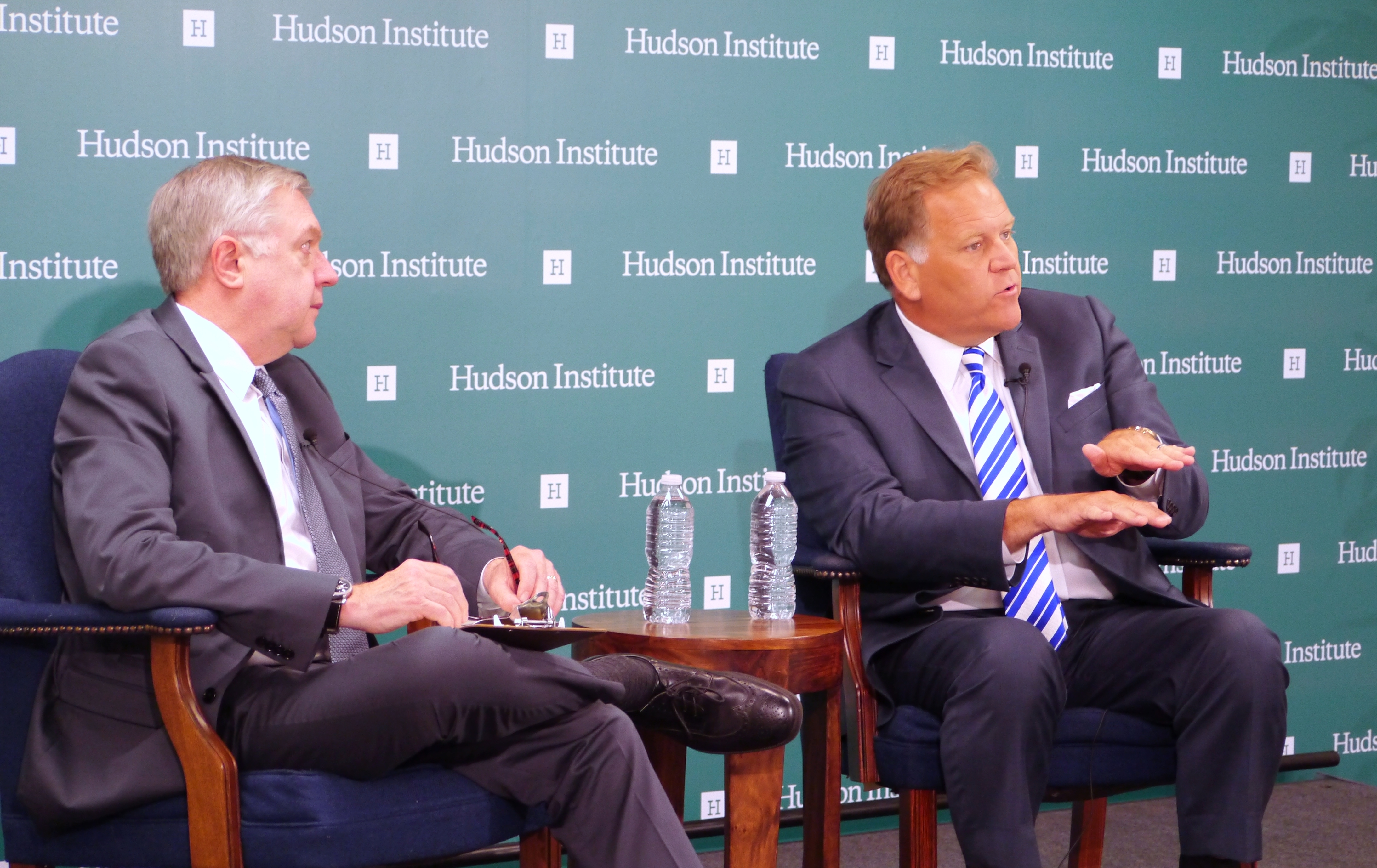 with Arthur Herman